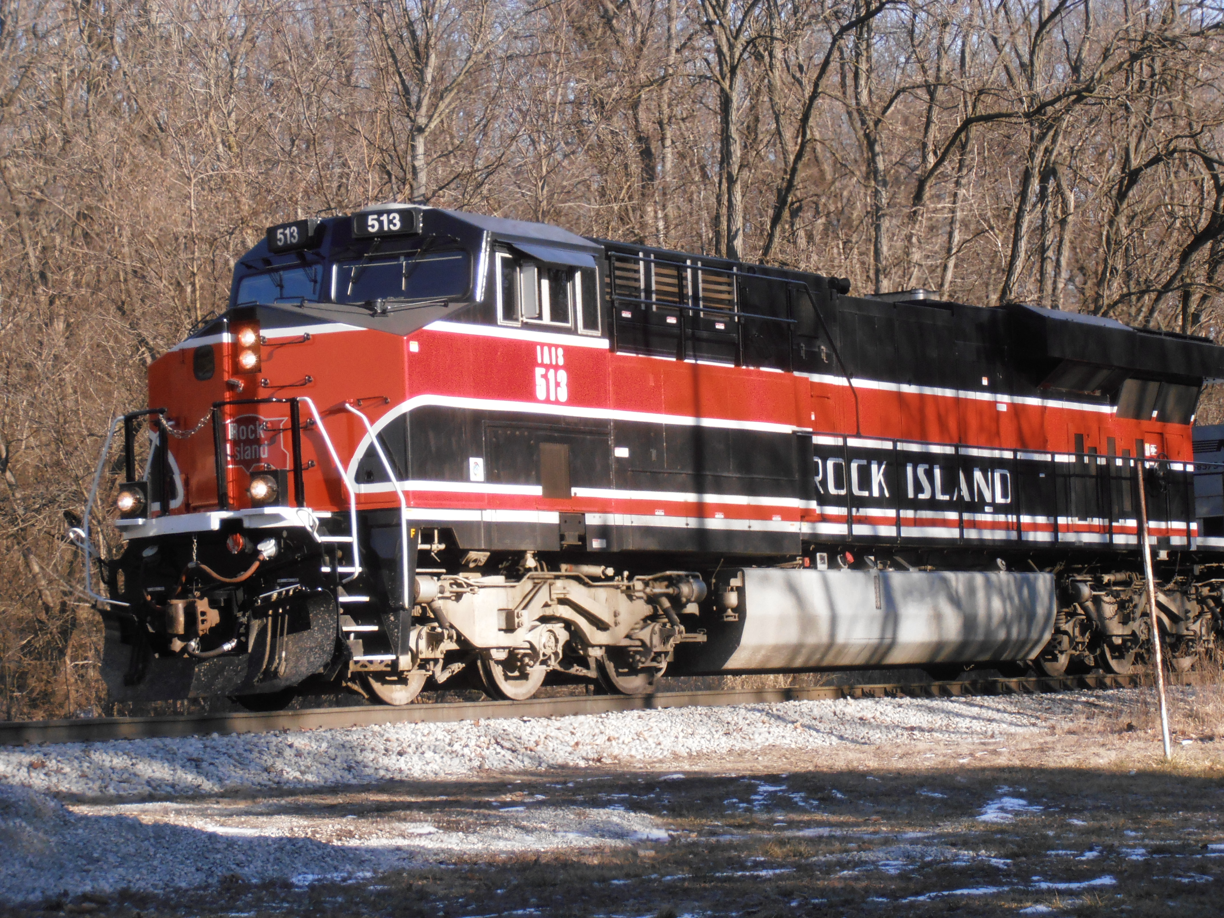 Iowa Interstate's ES44AC painted in "Rock Island" Heritage colors arrives in the east end of Bureau Junction, IL as a scheduled "West Train"